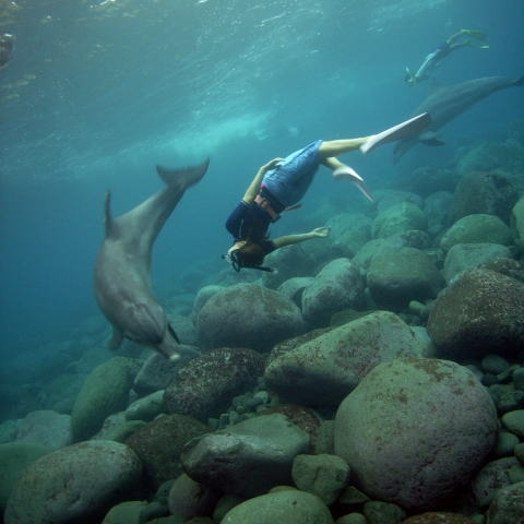 hanako with dolphin in mikura sea.